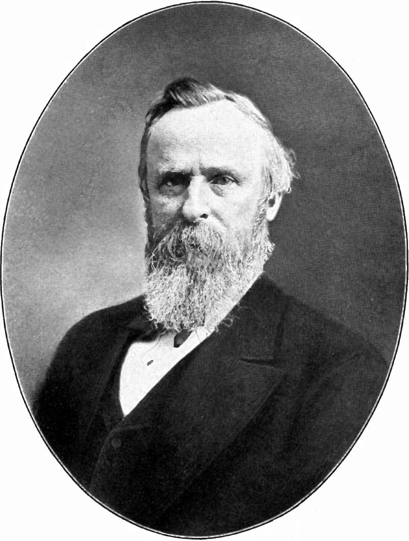 Black and white portrait of president of the United States Rutherford B. Hayes in an oval frame